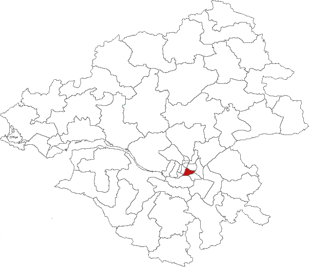 Map of canton of France : Canton de Nantes-3, Loire-Atlantique, France